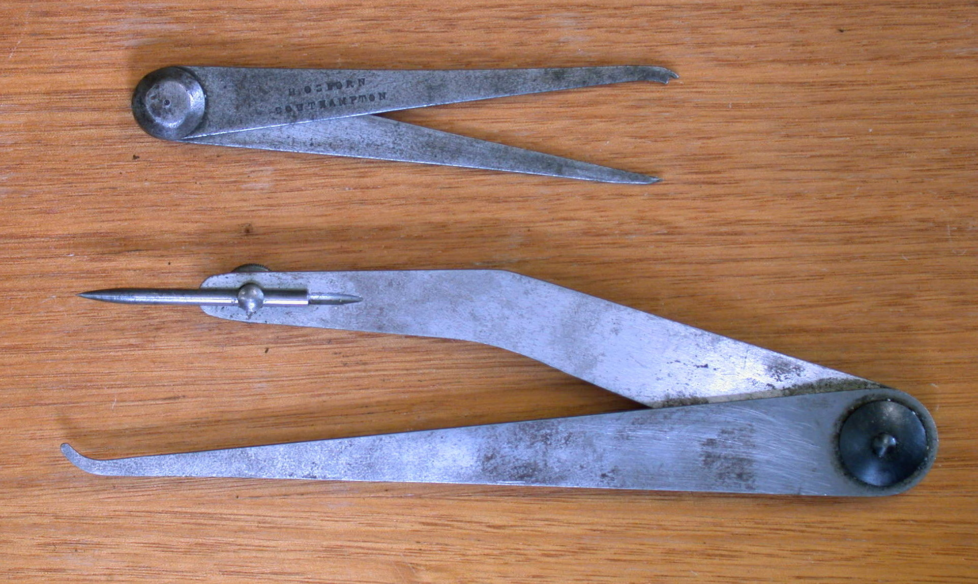 Two styles of oddleg (or jenny) calipers